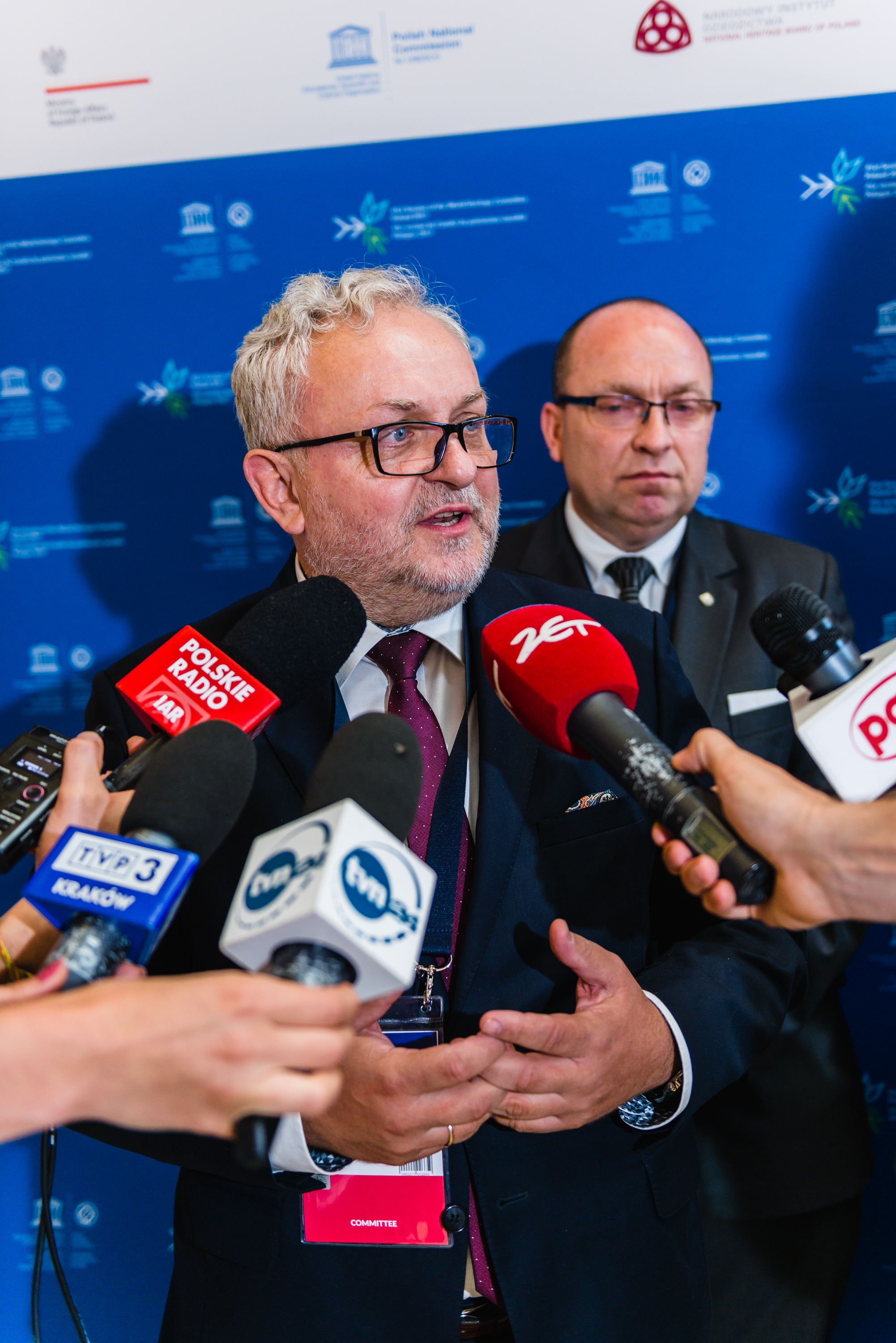 Arkadiusz Czech - Major of Tarnowskie Góry, Poland (in foreground) & Zbigniew Pawlak - vice-president of the Society of Friends of the Tarnowskie Góry-Land